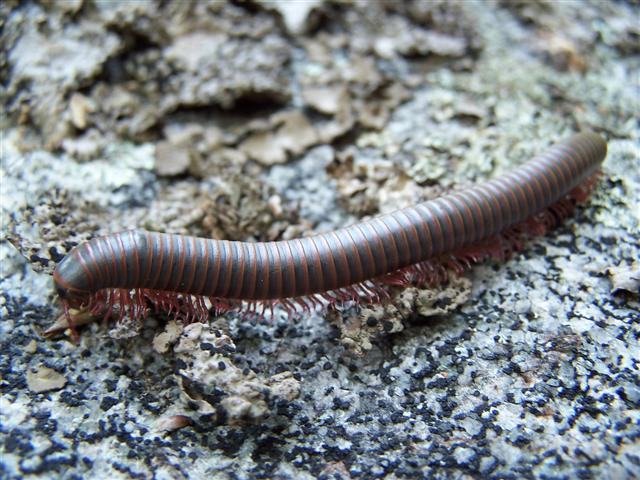 Narceus Americanus Millipede